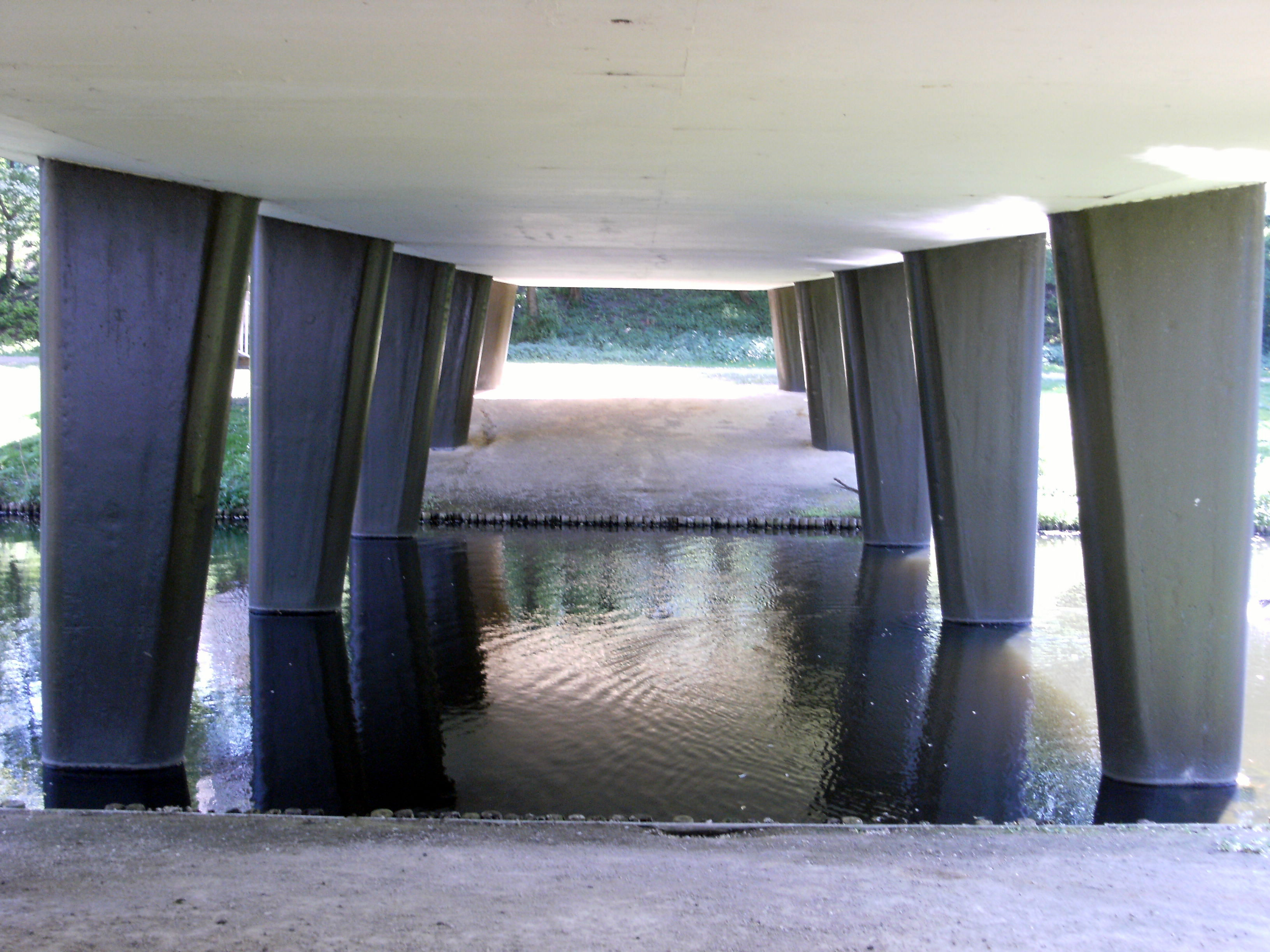 2011-04- 25 in Amsterdam; Sloterhof columns.